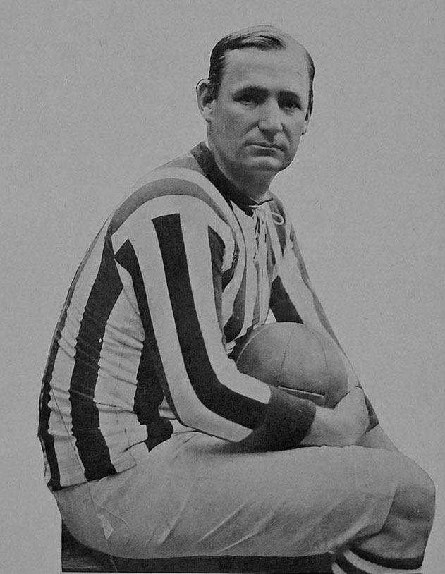 Jorge Brown (1880-1936), the most notable footballer of Alumni Athletic Club of Argentina.